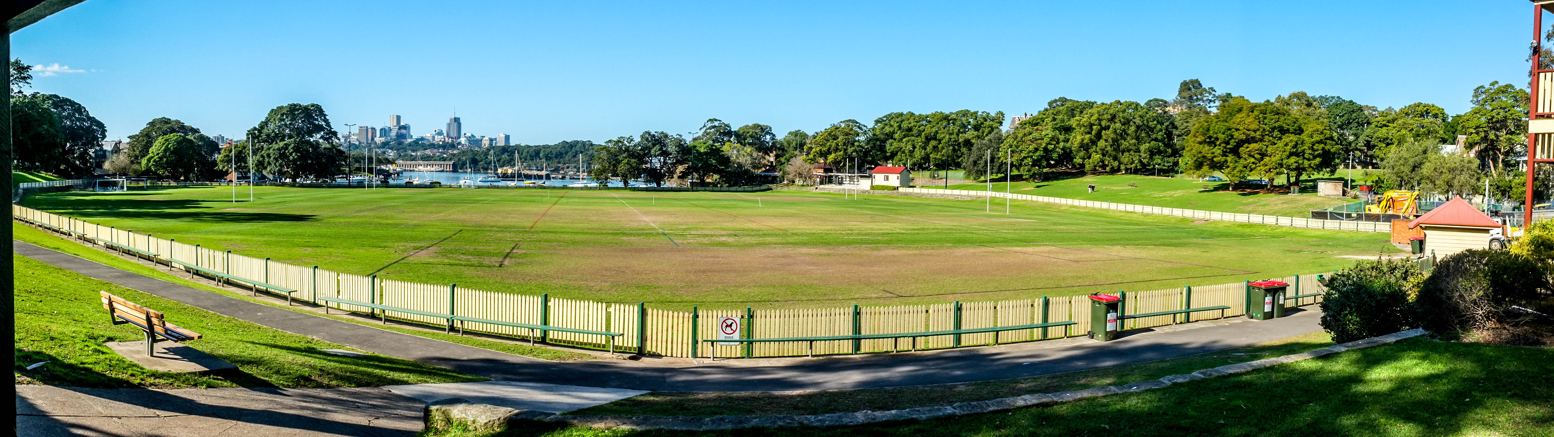 Birchgrove Oval the spiritual home of rugby league in Australia because it hosted the first professional matches in 1908